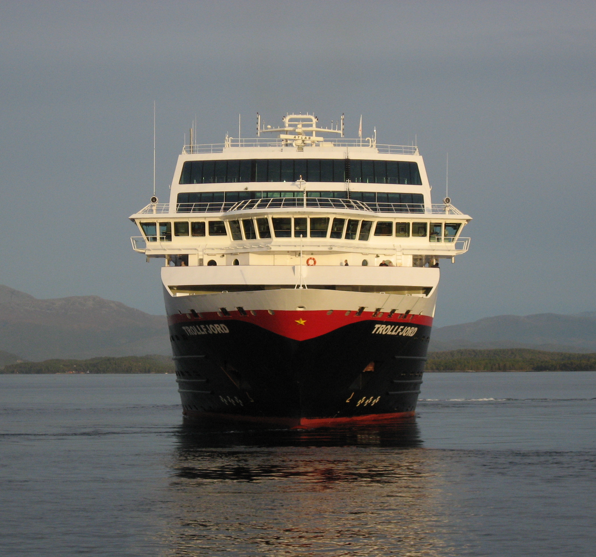 Norwegian coastal express ship (hurtigruten) MS Trollfjord.